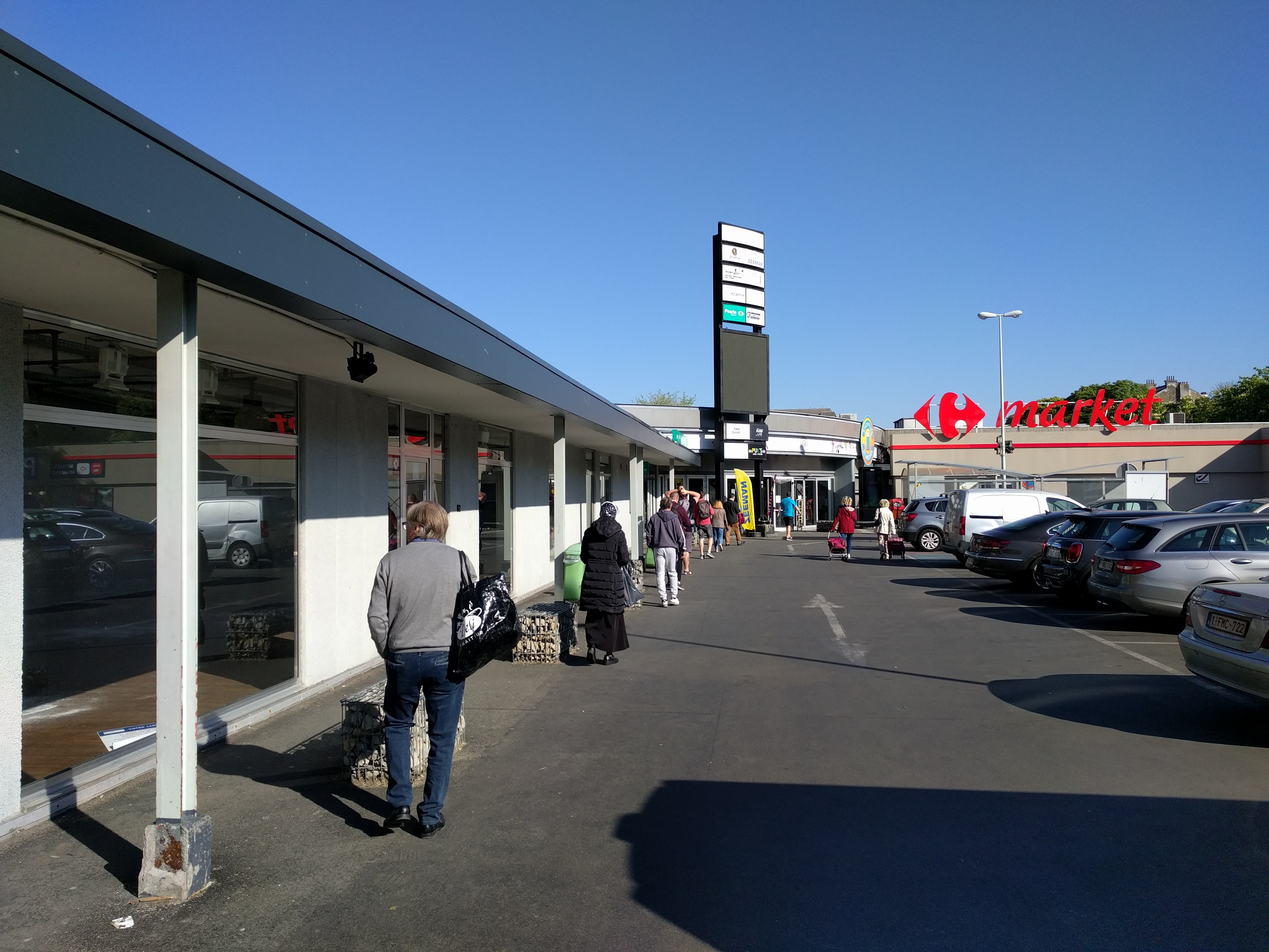 During the COVID-19 pandemic, people hold the line respecting social distancing, at Carrefour market supermarket, Cours Saint-Michel, Etterbeek.